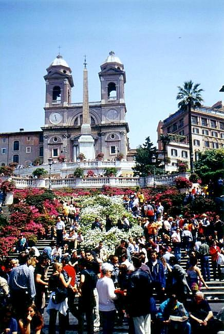 Spagna, Spanish Steps, Spanische Treppe in Rom